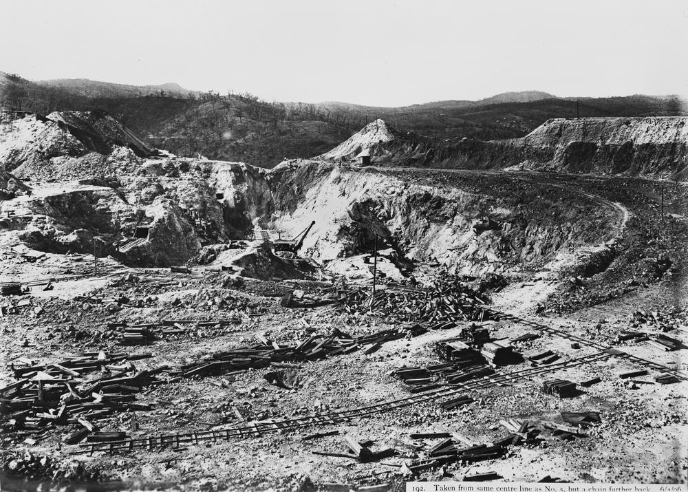 Working at the cutting, Mount Morgan Mines, 1906.